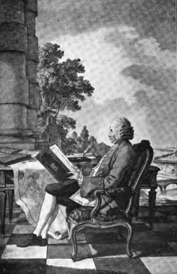 Daniel-Charles Trudaine (1703-1769), French Engineer of the Ponts-et-Chaussées.